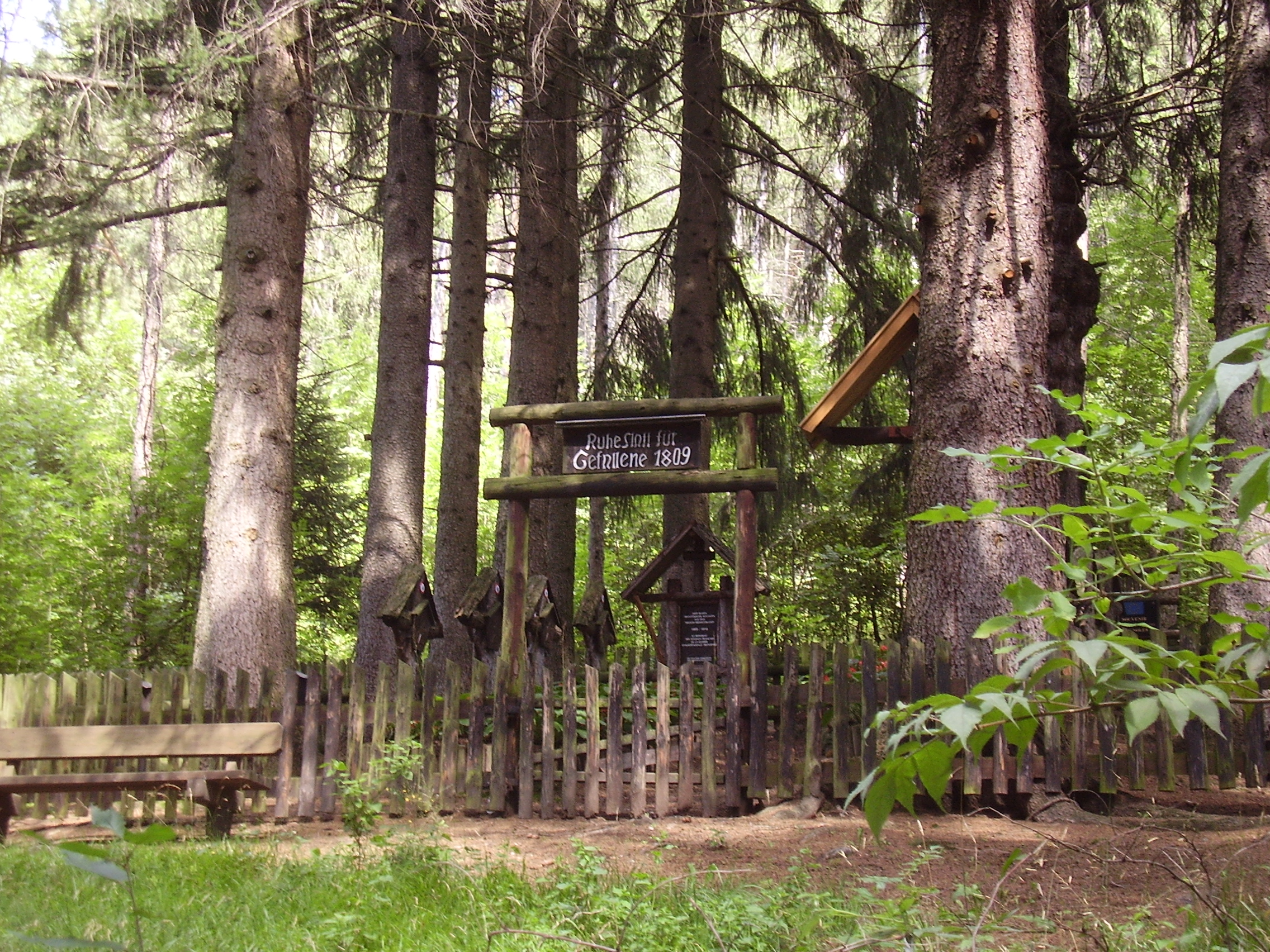 A small war cemetery for some French soldiers fallen in 1809 in Dietenheim (Bruneck, South Tyrol, Italy. The script says: "Ruhestatt für Gefallene 1809")